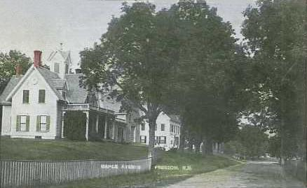 Street Scene, Freedom, NH; from a c. 1910 postcard.